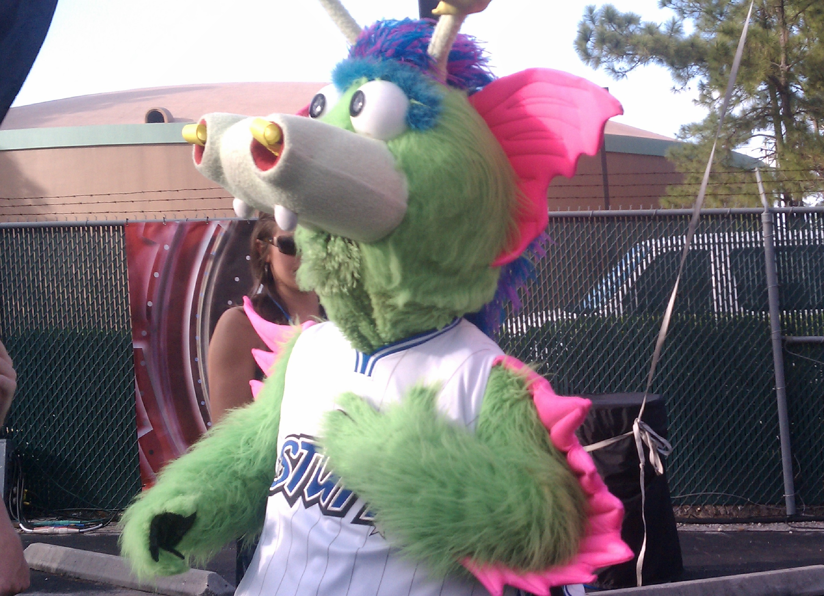 Stuff, the Orlando Magic mascot, at ESPN The Weekend at Walt Disney World in 2011